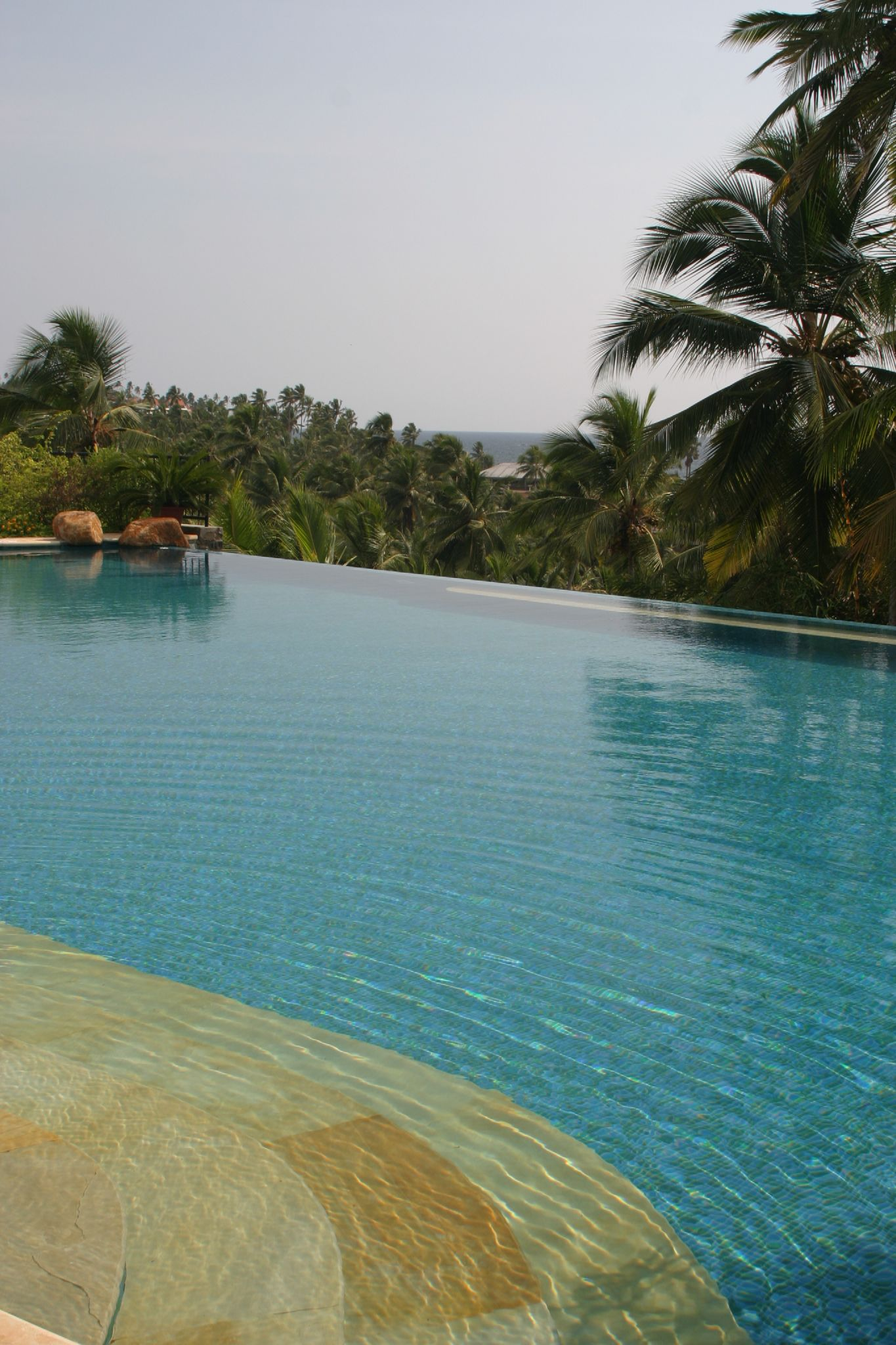 Infinity pool at the Taj Green Cove hotel